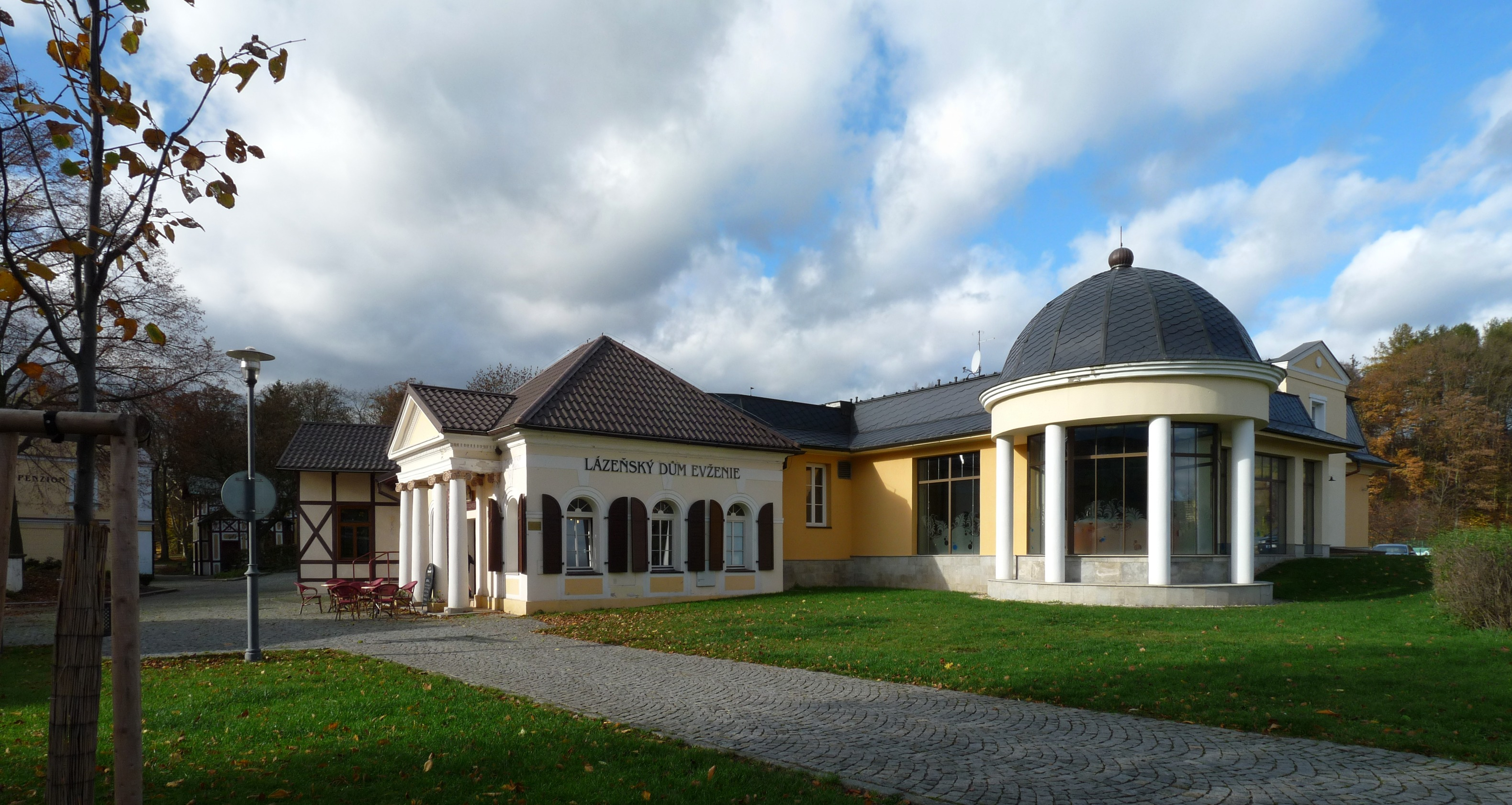 Evženie Spa in the town of Klášterec nad Ohří, Chomutov District, Ústí nad Labem Region, Czech Republic.